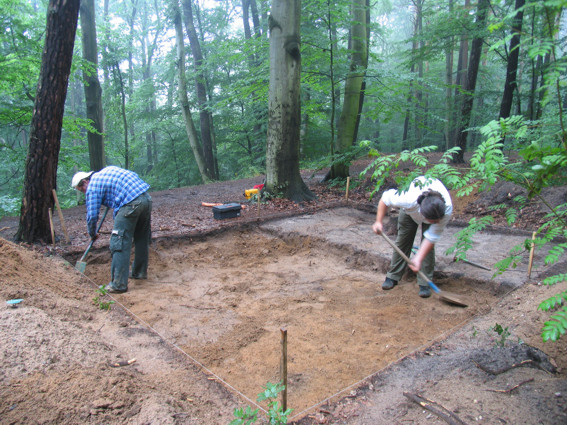 A medieval fort "Chrobry" in Szprotawa, Poland